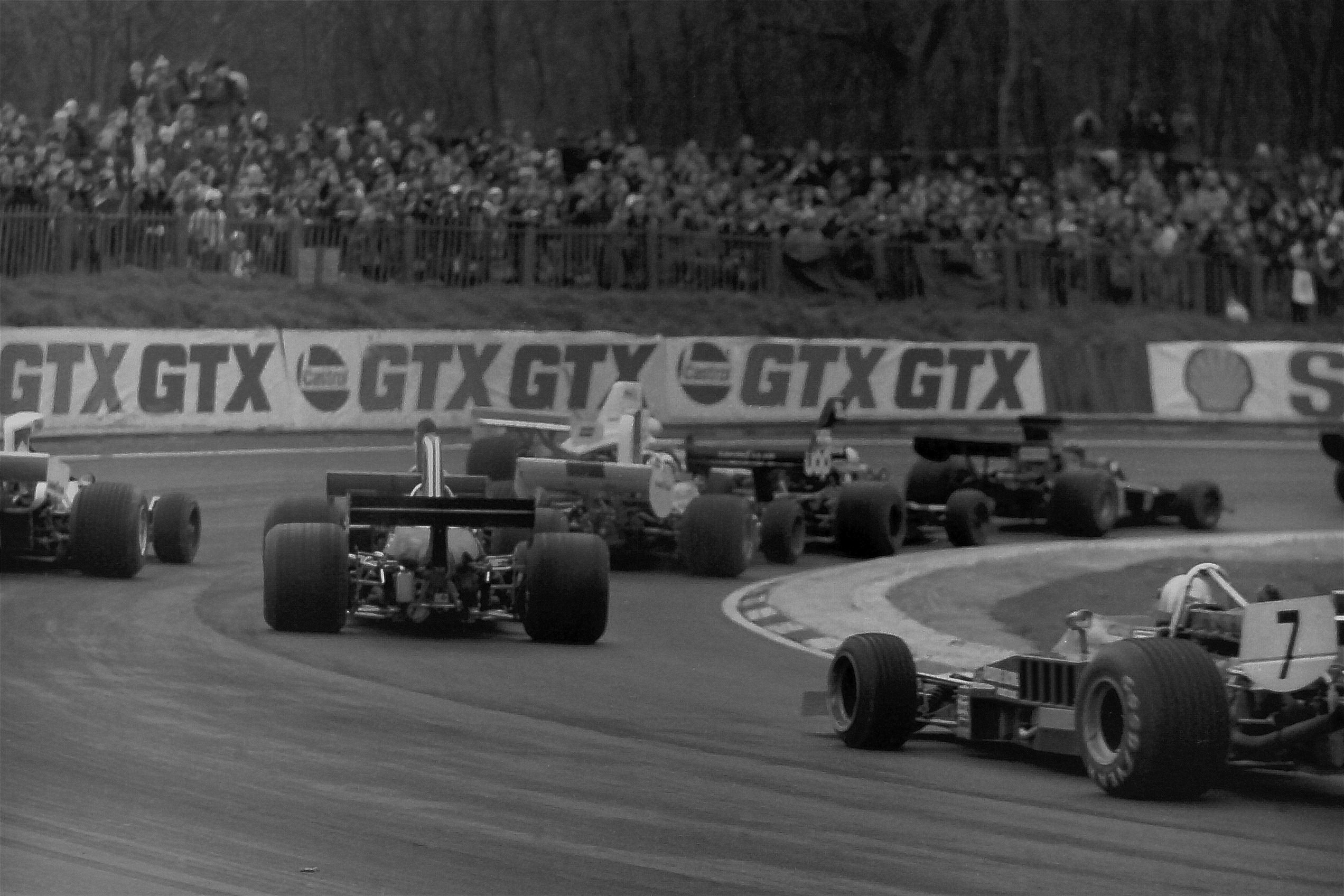 The main gaggle of cars rounds Druids Hill bend in the early stages of the 1975 Race of Champions at Brand Hatch, UK. Cars identifiable include Vern Schuppan's Formula 5000 Lola T332 (#7, at rear), Arturo Merzario's Williams FW03 (far left), Rolf Stommelen's Hill GH1 (centre, white rear wing with central darker stripe), Mark Donohue's Penske PC1 (central, outside edge of track, furthest from camera), Tom Pryce's Shadow DN5 (second from front of this group, UOP livery) and Ronnie Peterson's Lotus 72E (leading this group).